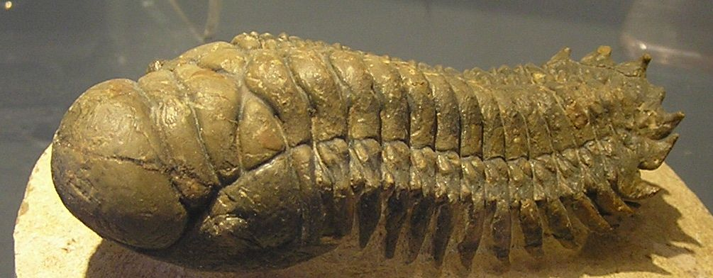 3D Fossil of a Crotalocephalus trilobite, photo taken in Quebec City store, Quebec, Canada, by Yannick Trottier in 2006.